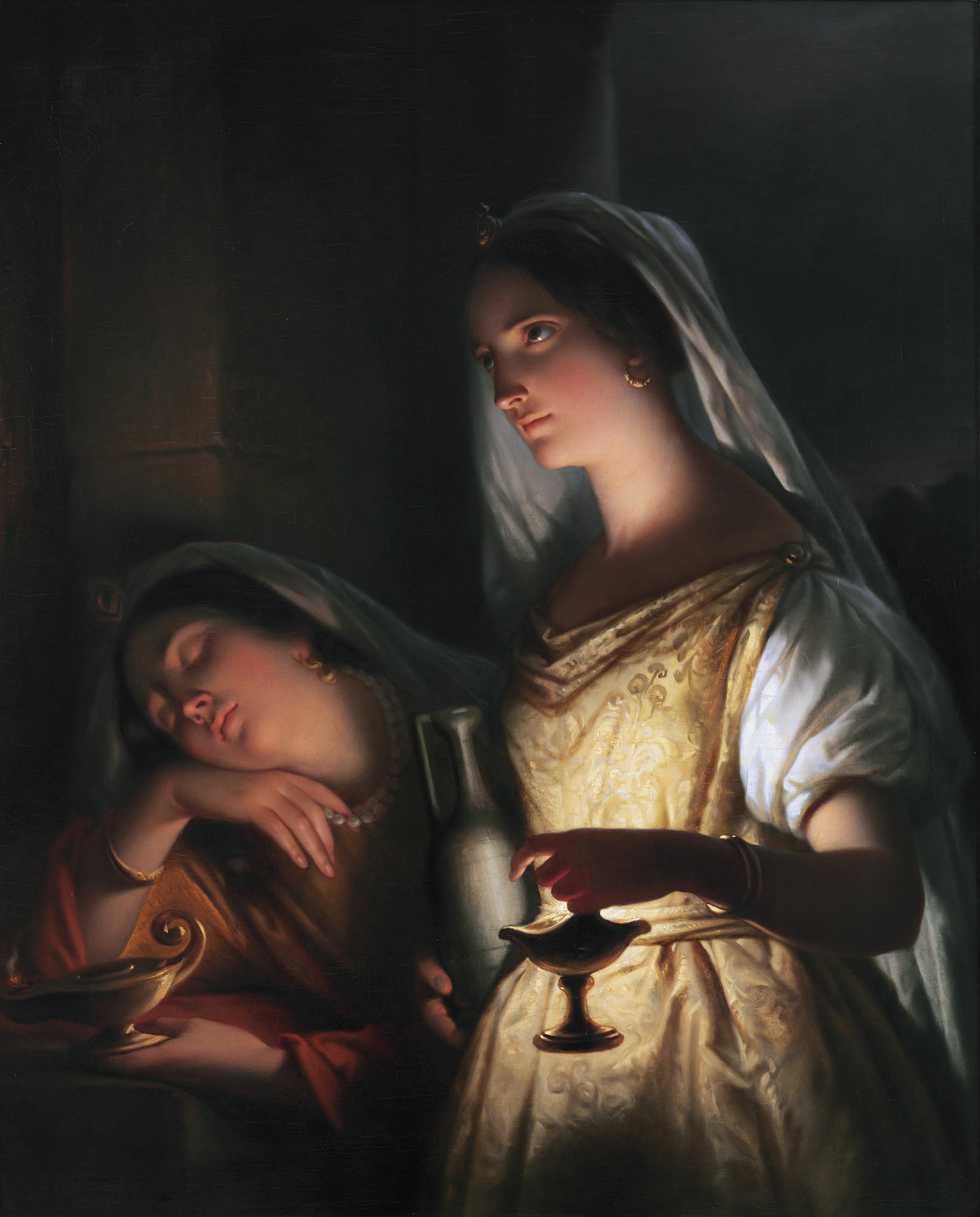 The wise and the foolish virgin oil on canvas 97 x 77 cm 1848